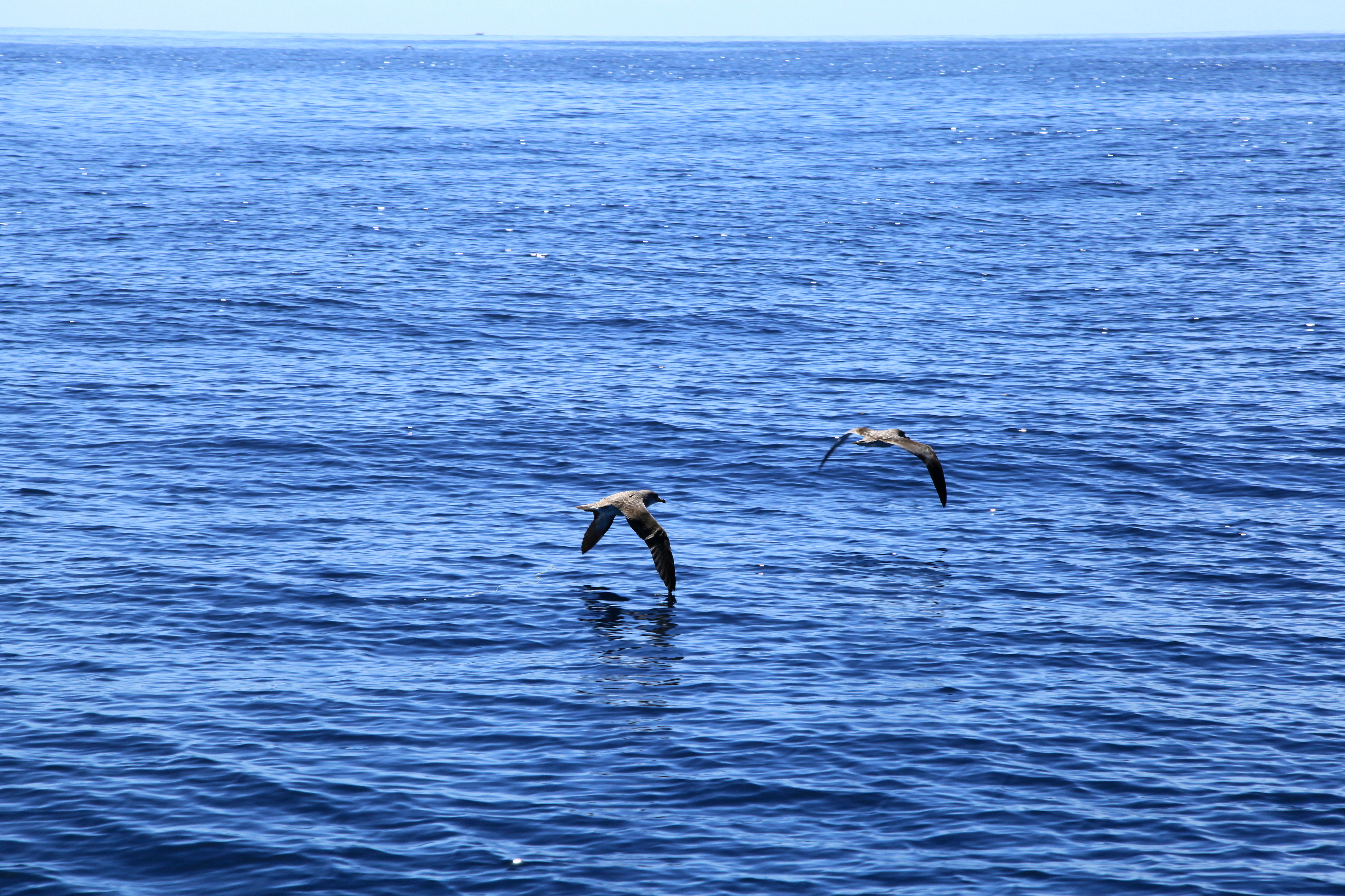 View from ship Fancy II to the coast of Tijarafe, La Palma, Canary Island, Spain